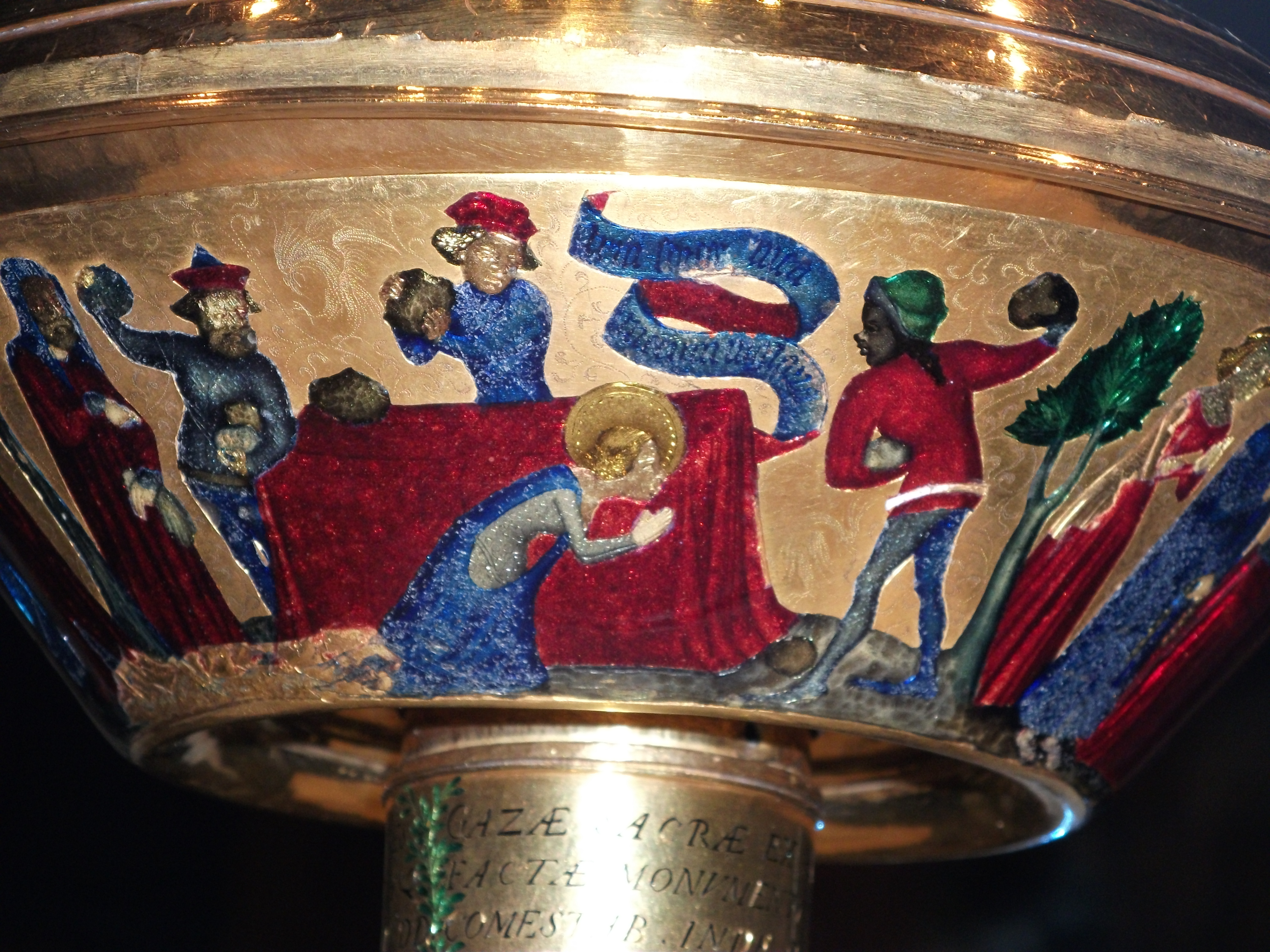 The Royal Gold Cup or Saint Agnes Cup is a solid gold covered cup lavishly decorated with enamel and pearls. It was made for the French royal family at the end of the 14th century, and later belonged to several English monarchs, before spending nearly 300 years in Spain. Since 1892 it has been in the British Museum, and is generally agreed to be the outstanding survival of late medieval French plate.